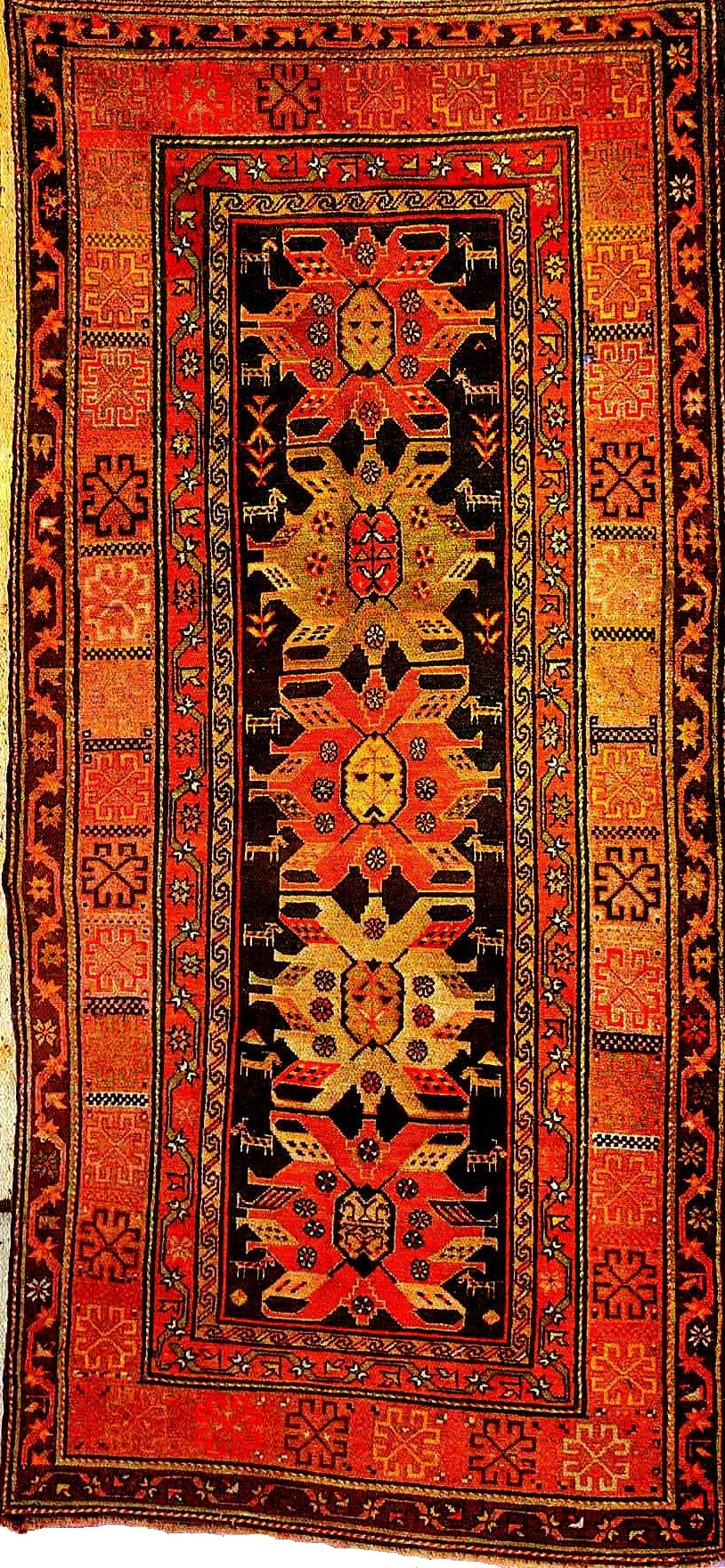 Long Shirvan rug, Shirvan school, XIX c/